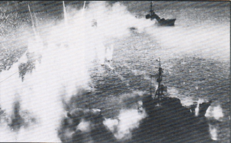 Z24 and T24 being attacked by rocket-firing Beaufighters